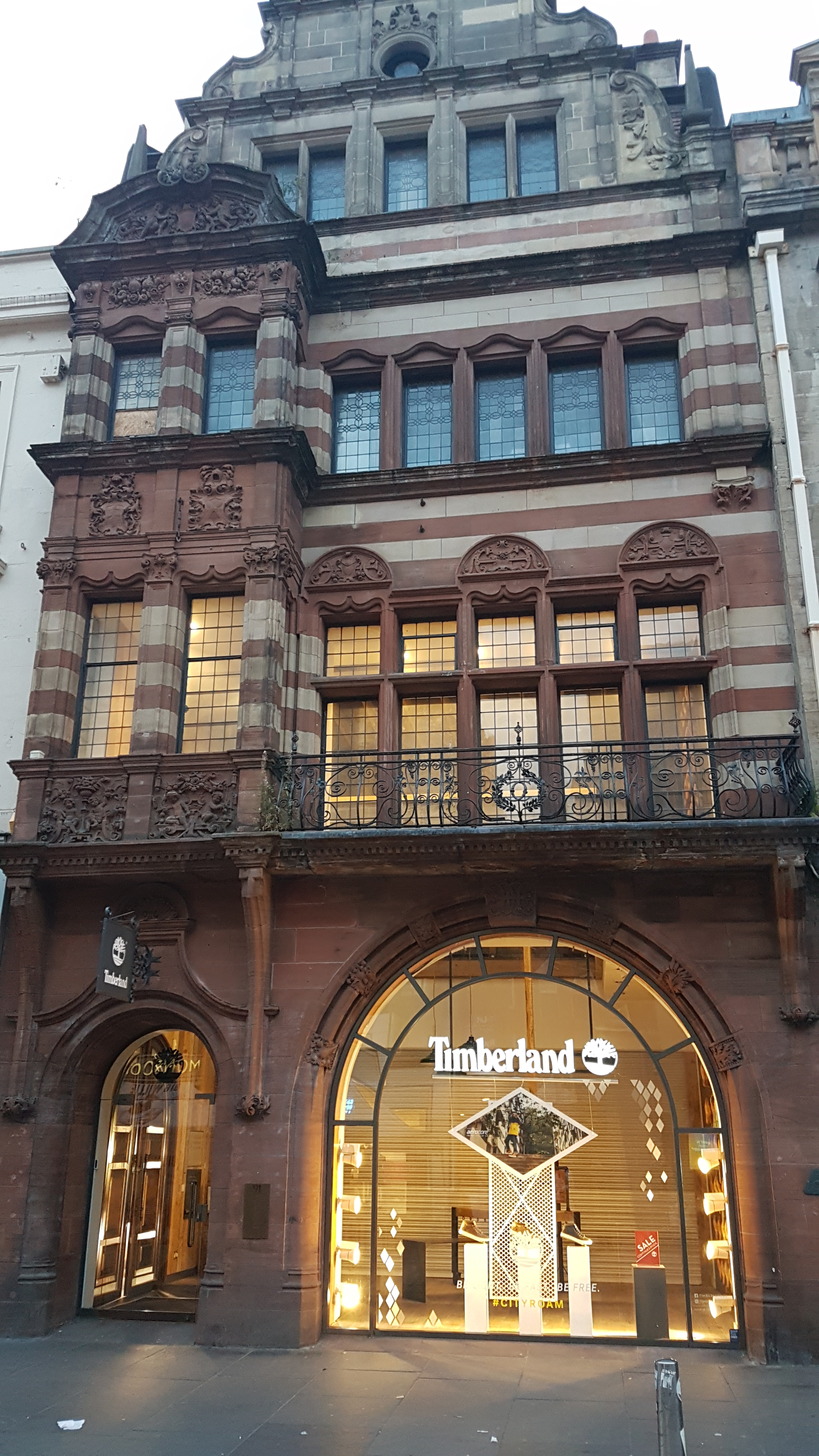 91 Buchanan Street, Clydesdale Bank Wikidata has entry Q17568164 with data related to this item.